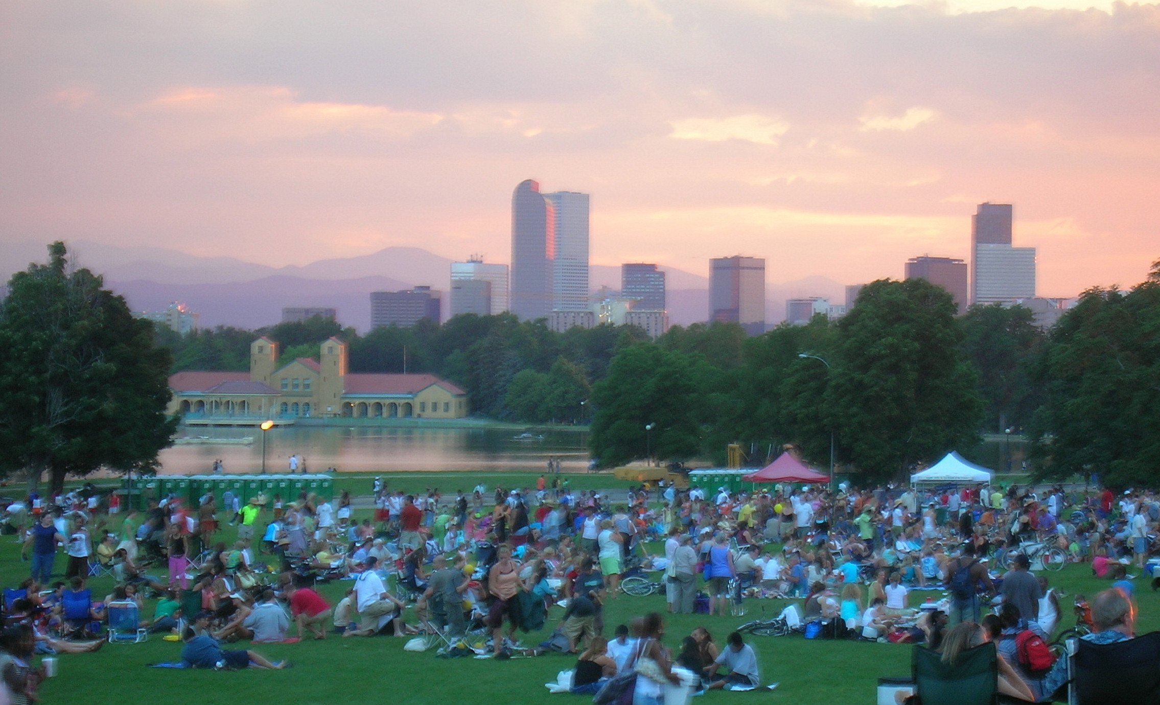 a view of downtown denver from city park